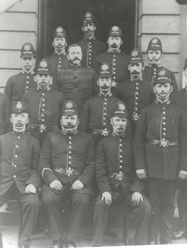 Stockport police station, Warren Street.